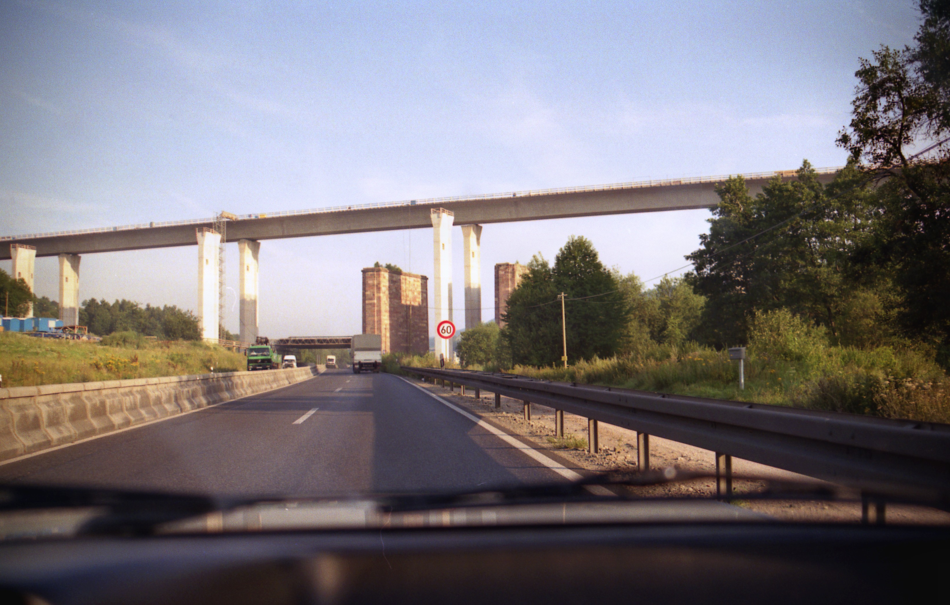 Weihetalbridge Richelsdorf, Autobahn A 4, near Gerstungen, Thuringia, Germany, under construction 1993 - scanned from color slide